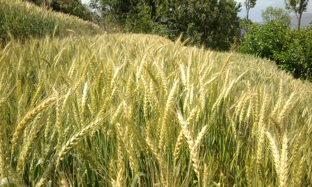 Wheat field in Panchkhal, Nepal.